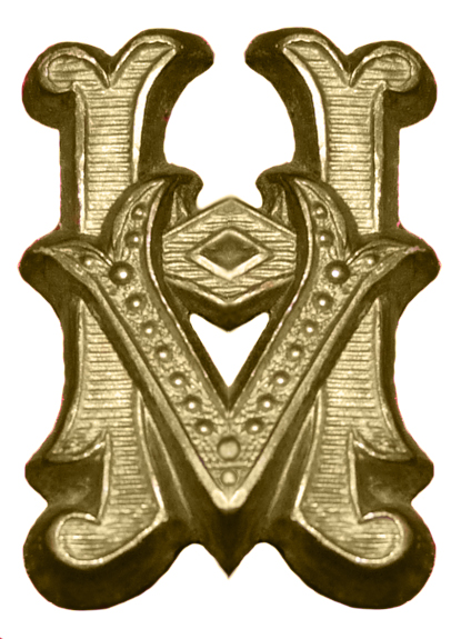 Shoulderstrap metal emblem of most of the Officials of the German Army (Wehrmacht Heer).